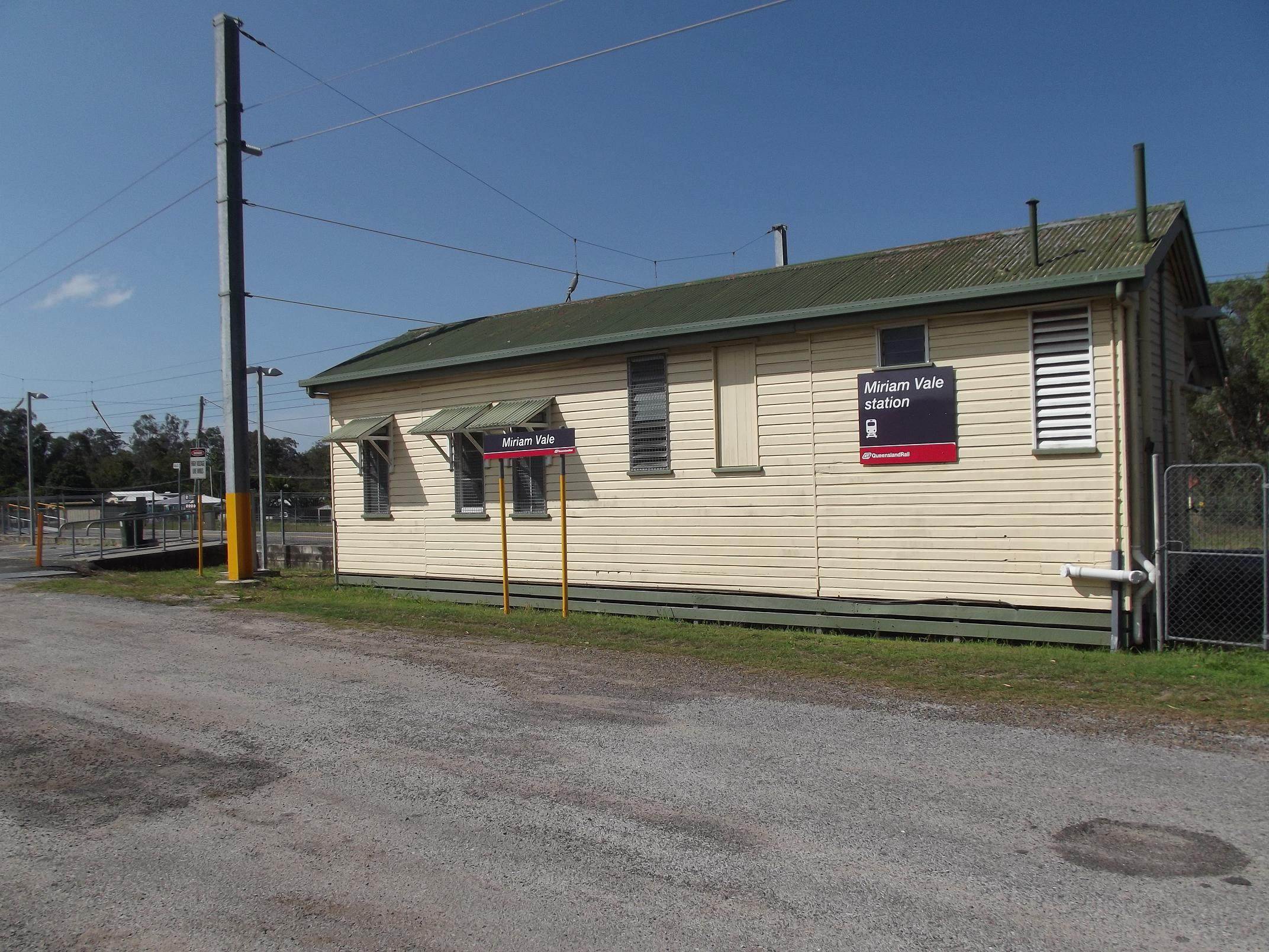 Miriam Vale railway station, located in Central Queensland on the North Coast line.